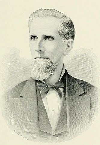 From Book: Moss Eng. Co. "J. G. Ramsay." Cyclopedia of eminent and representative men of the Carolinas of the nineteenth century. Madison, Wis. : Brant & Fuller. 1892 page 268.